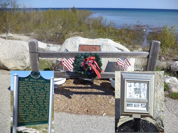 Big Rock Point B-52 Memorial on Lake Michigan shoreline